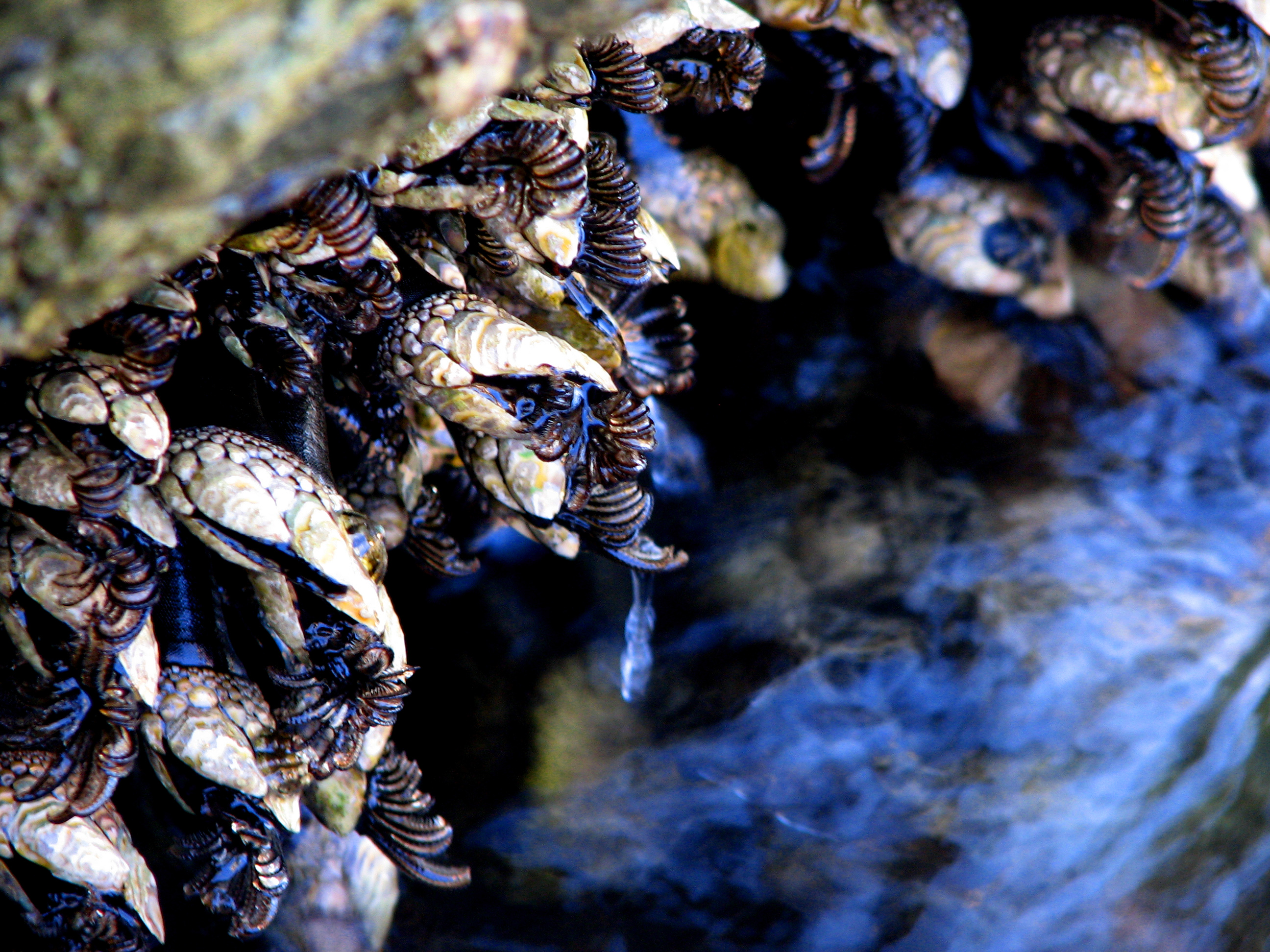 Photo taken by Daniel Foucachon. This photo was taken at Friday Harbor on the North West American coast. The Context was a Field Trip from New Saint Andrews College's Marine Biology elective, led by Dr. Gordon Wilson. Daniel Foucachon may be reached at